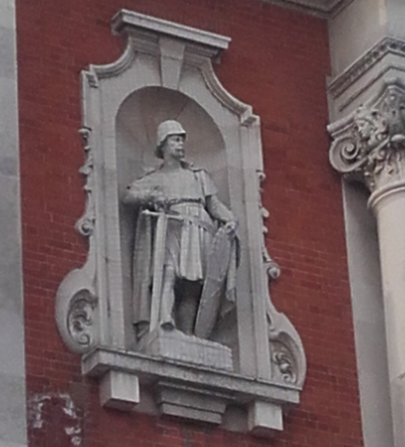 On the south facade of Colchester Town Hall, completed in 1902, this marble statue by L. J. Watts, depicts Eudo Dapifer, who was granted the town and castle of Colchester by King Henry I in 1101.